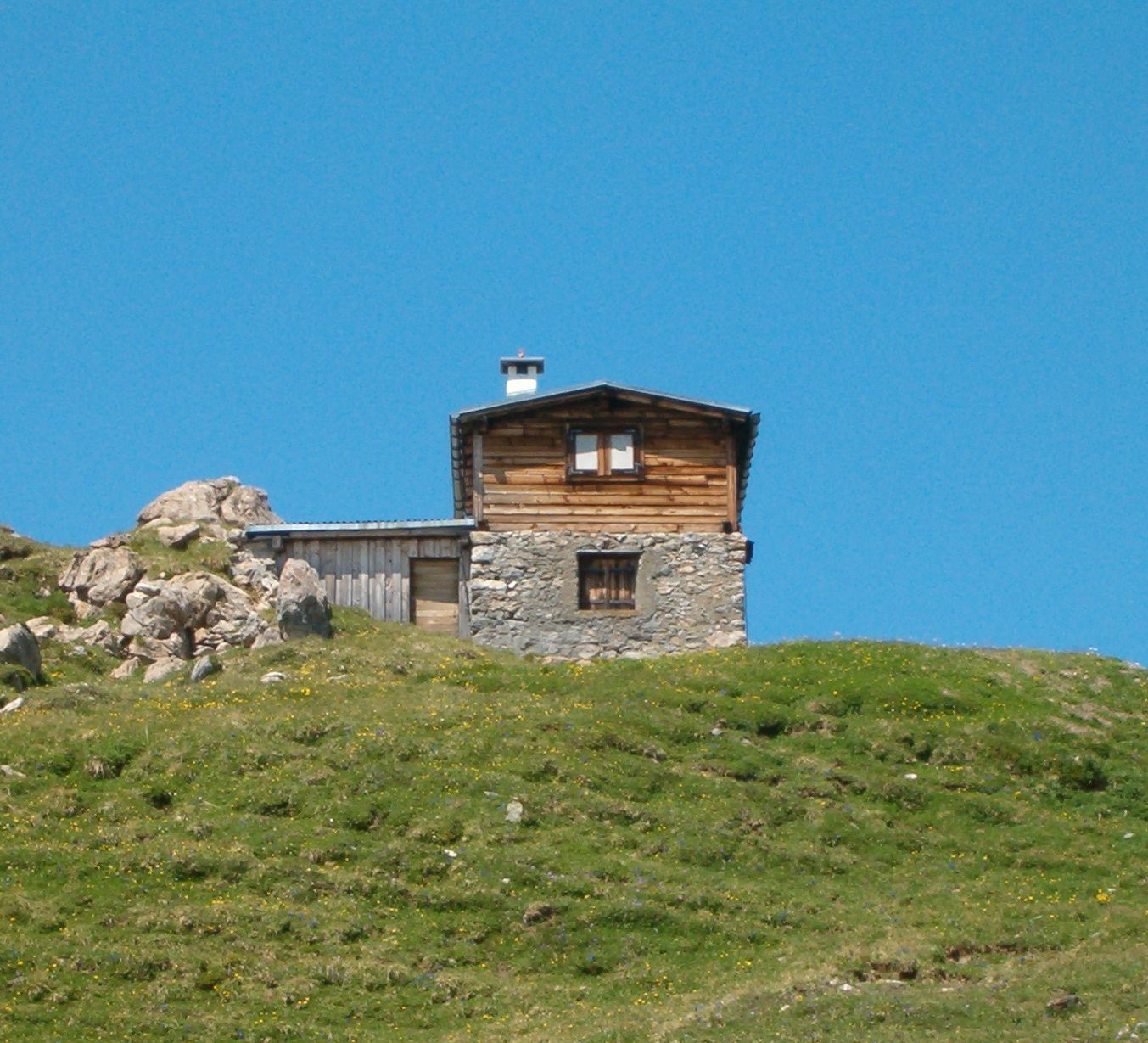 Ferdinand Hut in Arosa/Switzerland